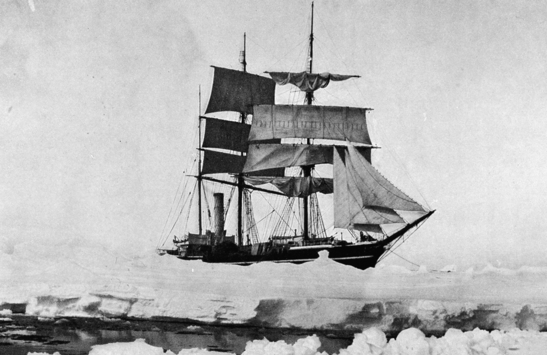 The TERRA NOVA -- "In the pack - a lead opening up." In: "Scott's Last Expedition ....", 1913. Dodd, Mead, and Company. New York. Volume I. Page 48.